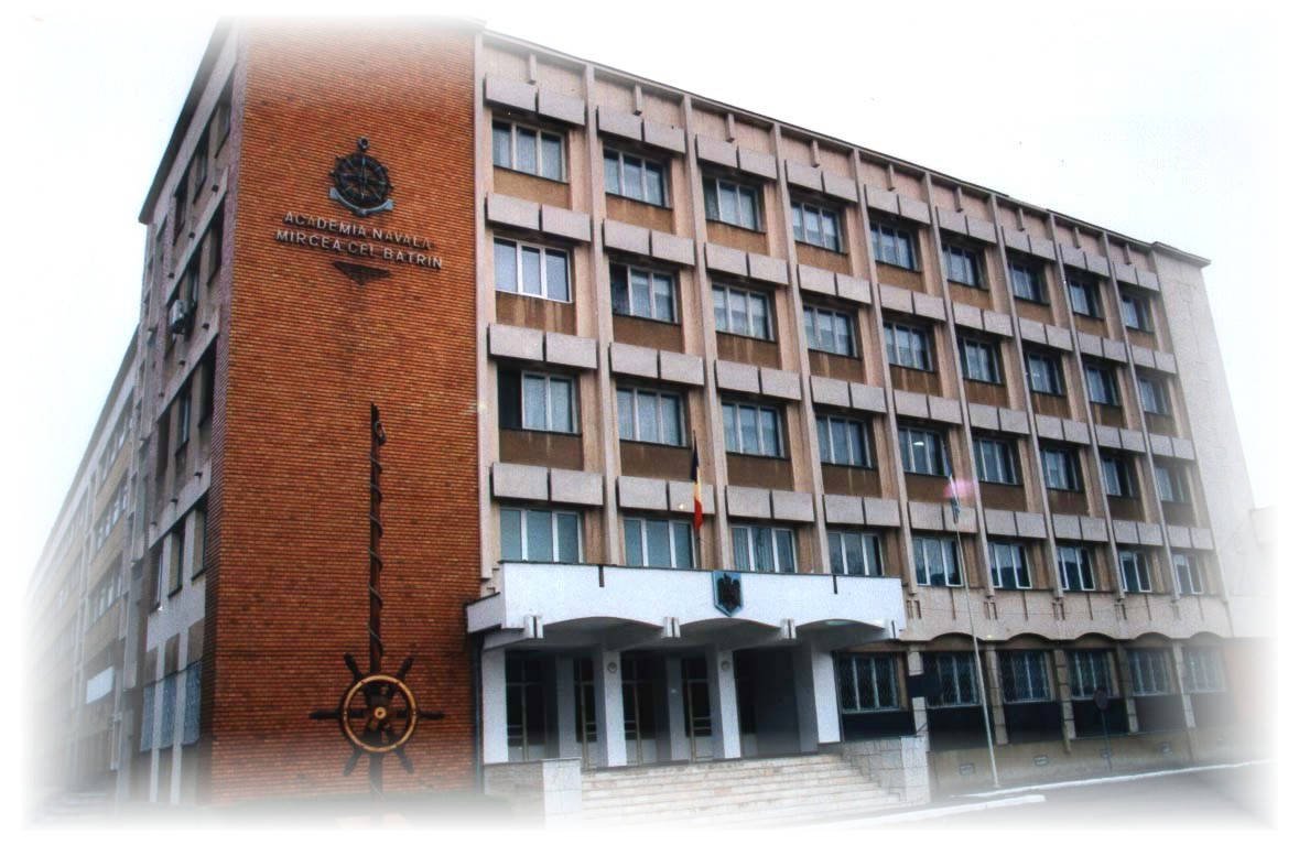 “Mircea cel Batran” Naval Academy Building.